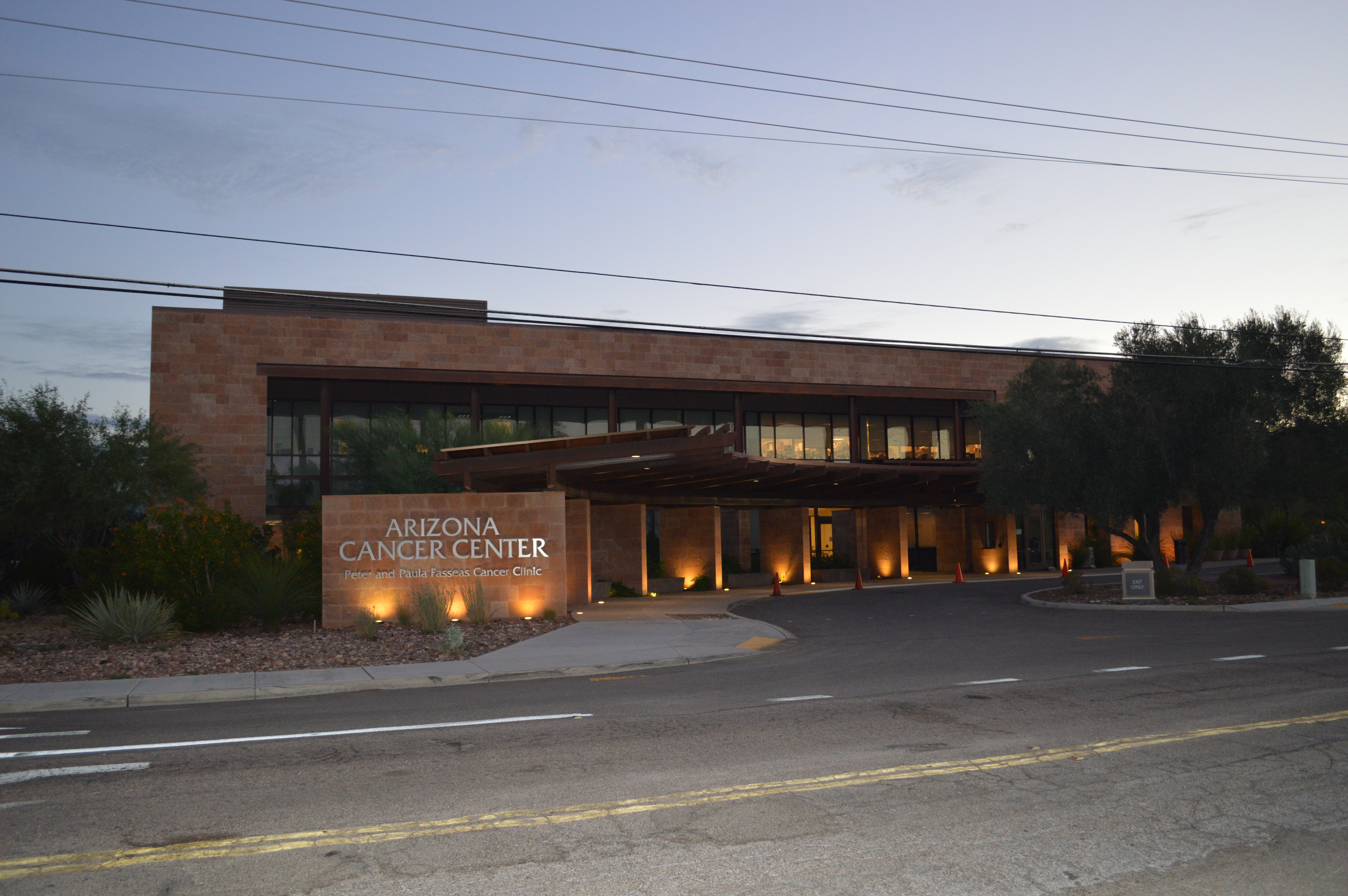 Arizona Cancer Center's location at UMC North, near Campbell and Roger in Tucson, Arizona.